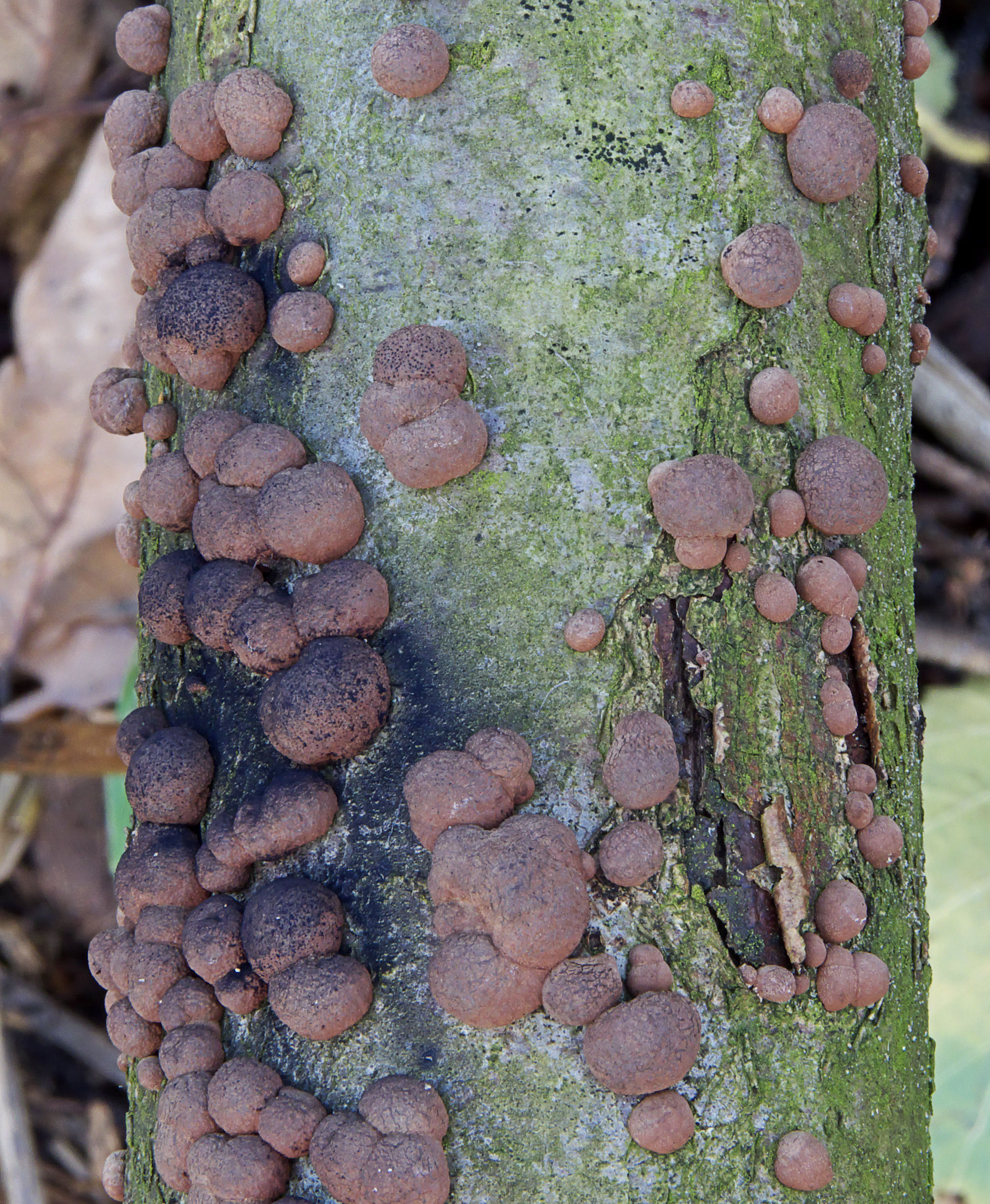 Hypoxylon fuscum at Corylus avellana